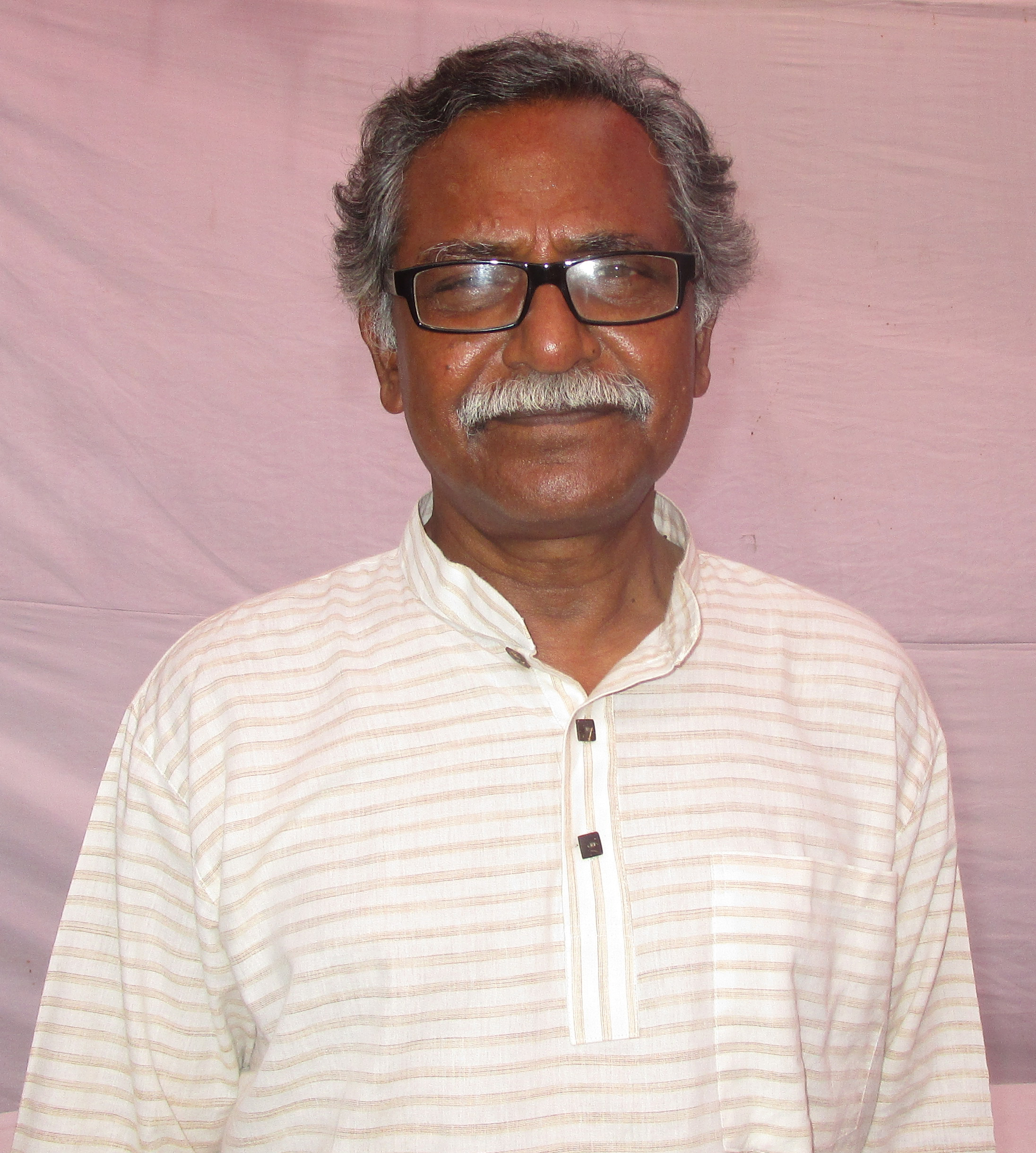 Anu Muhammad